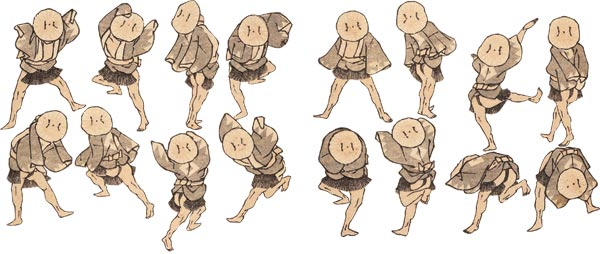 Suzume Odori-zu (Dancing Sparrows) in Volume 3, Hokusai Manga